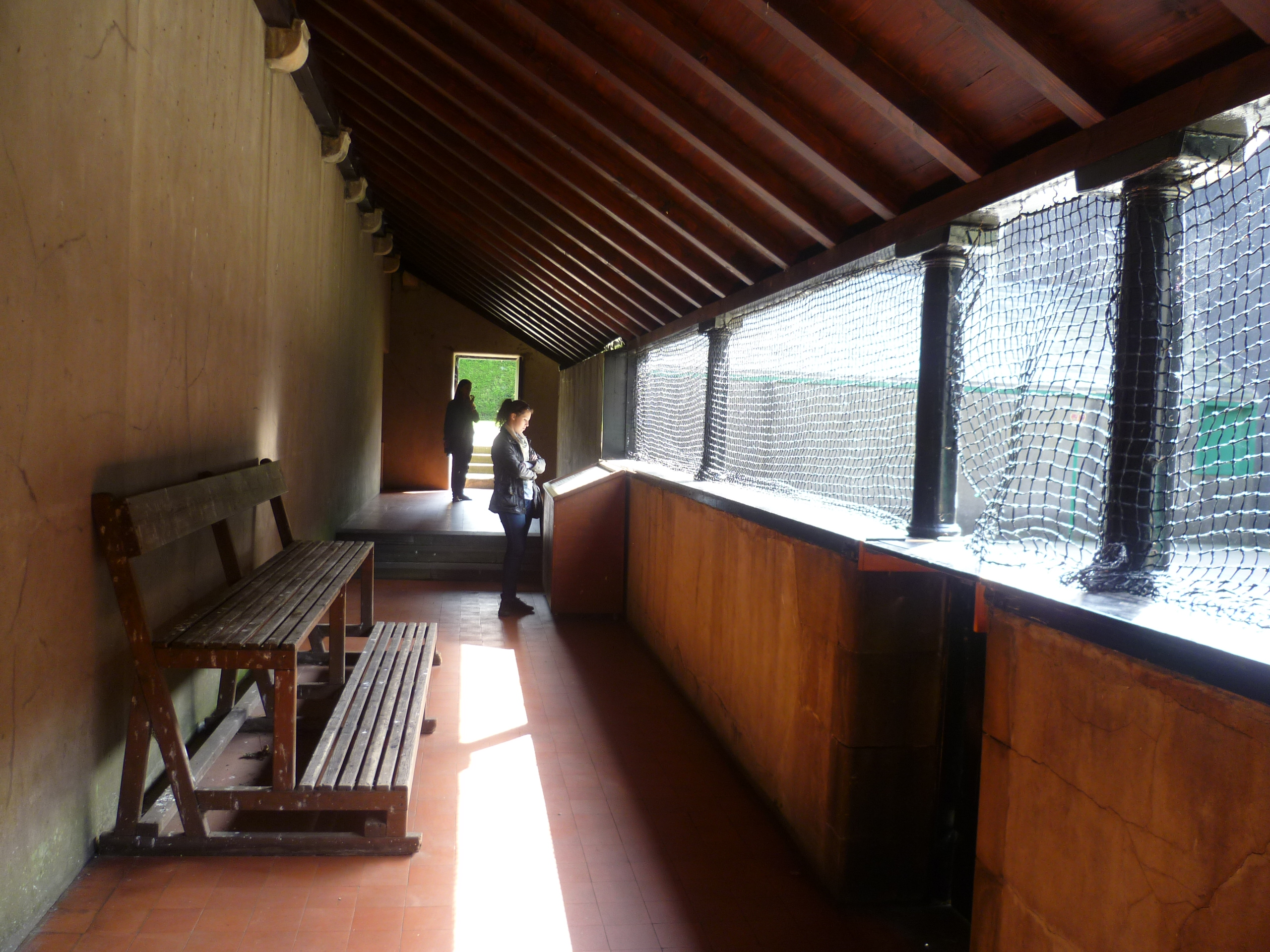 Real Tennis Court Spectators' Gallery (interior view)